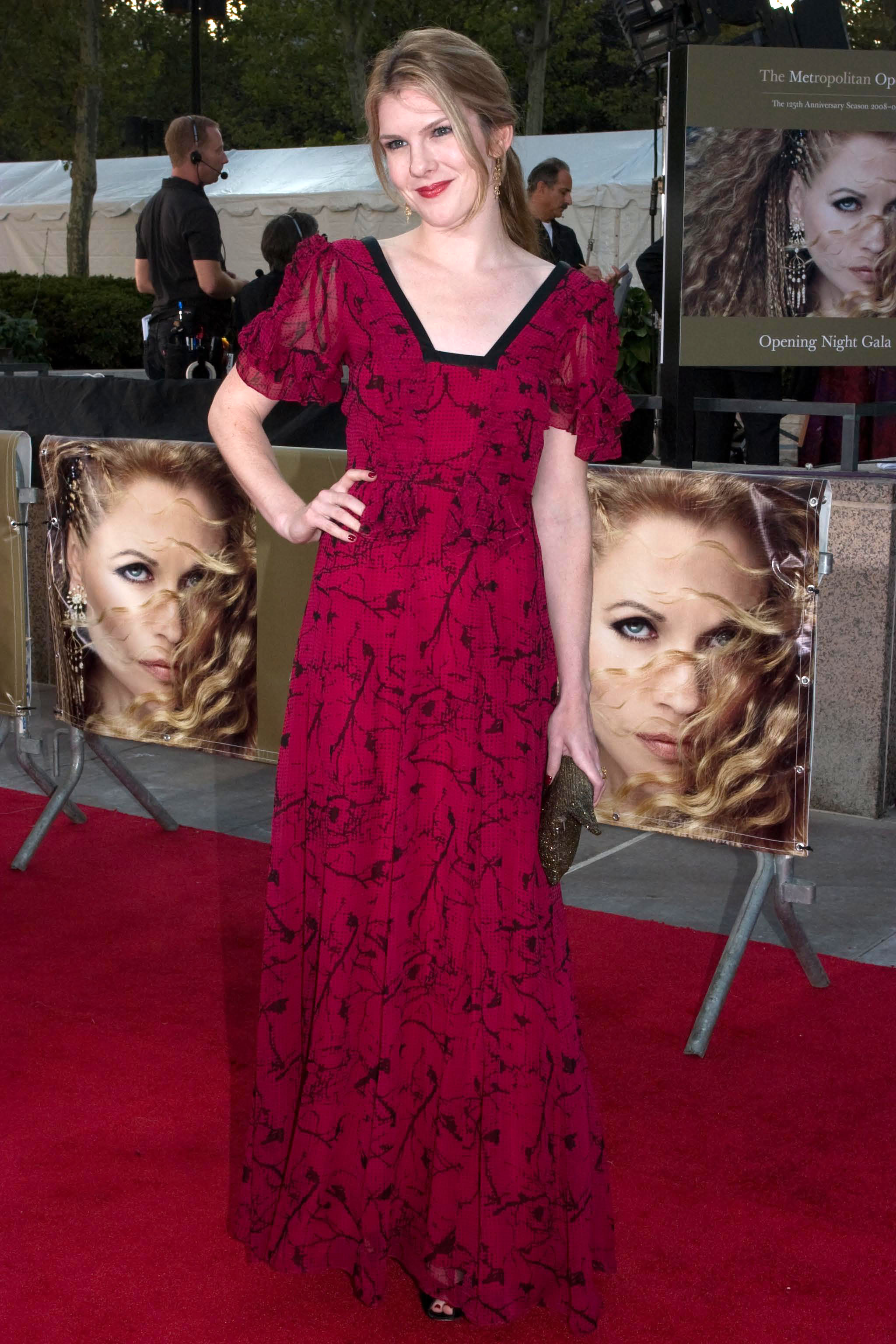 Actress Lily Rabe at the Metropolitan Opera opening in 2008. © Rubenstein, photographer Martyna Borkowski